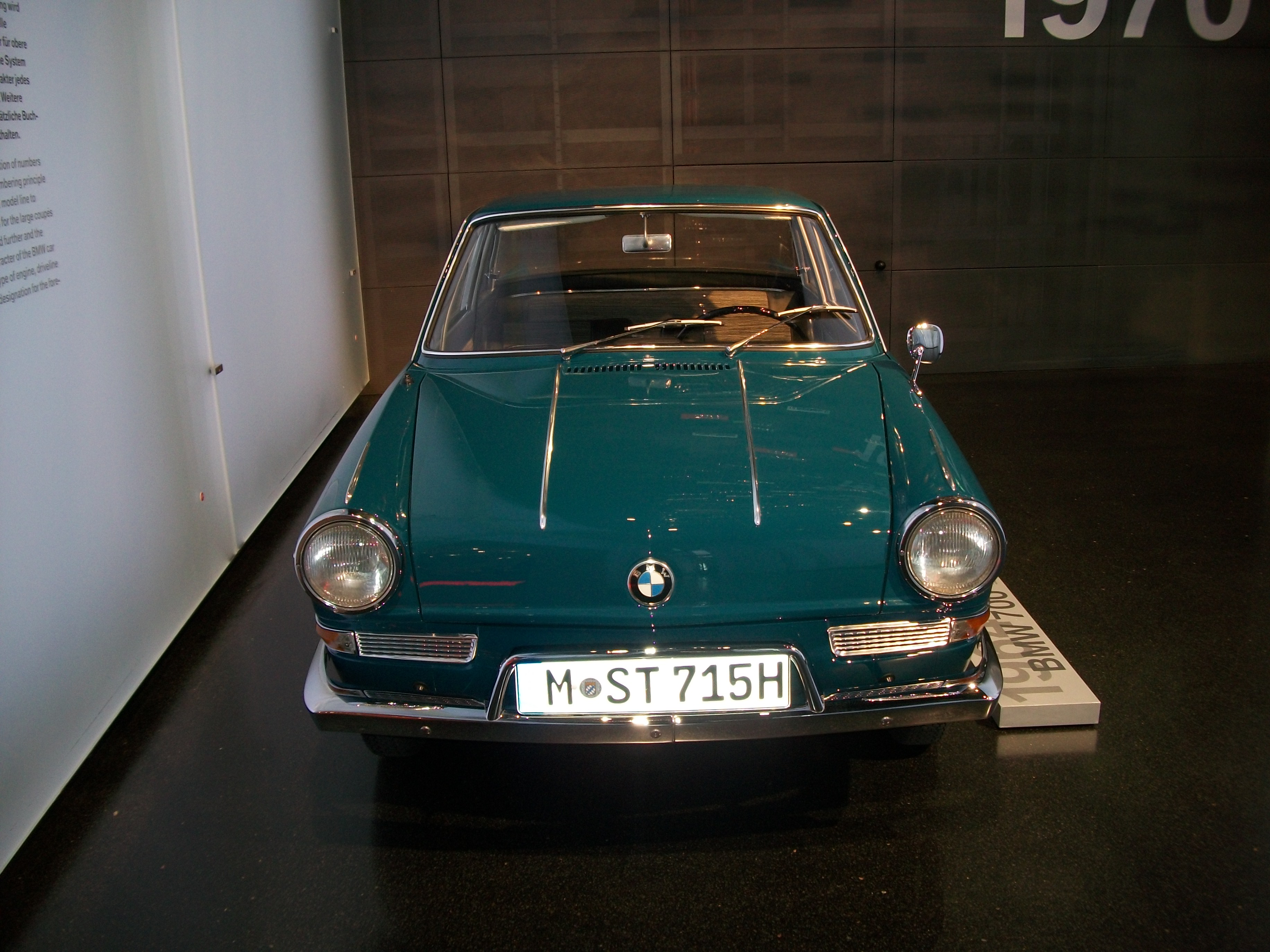 1959 BMW 700 in BMW Welt museum,Munich